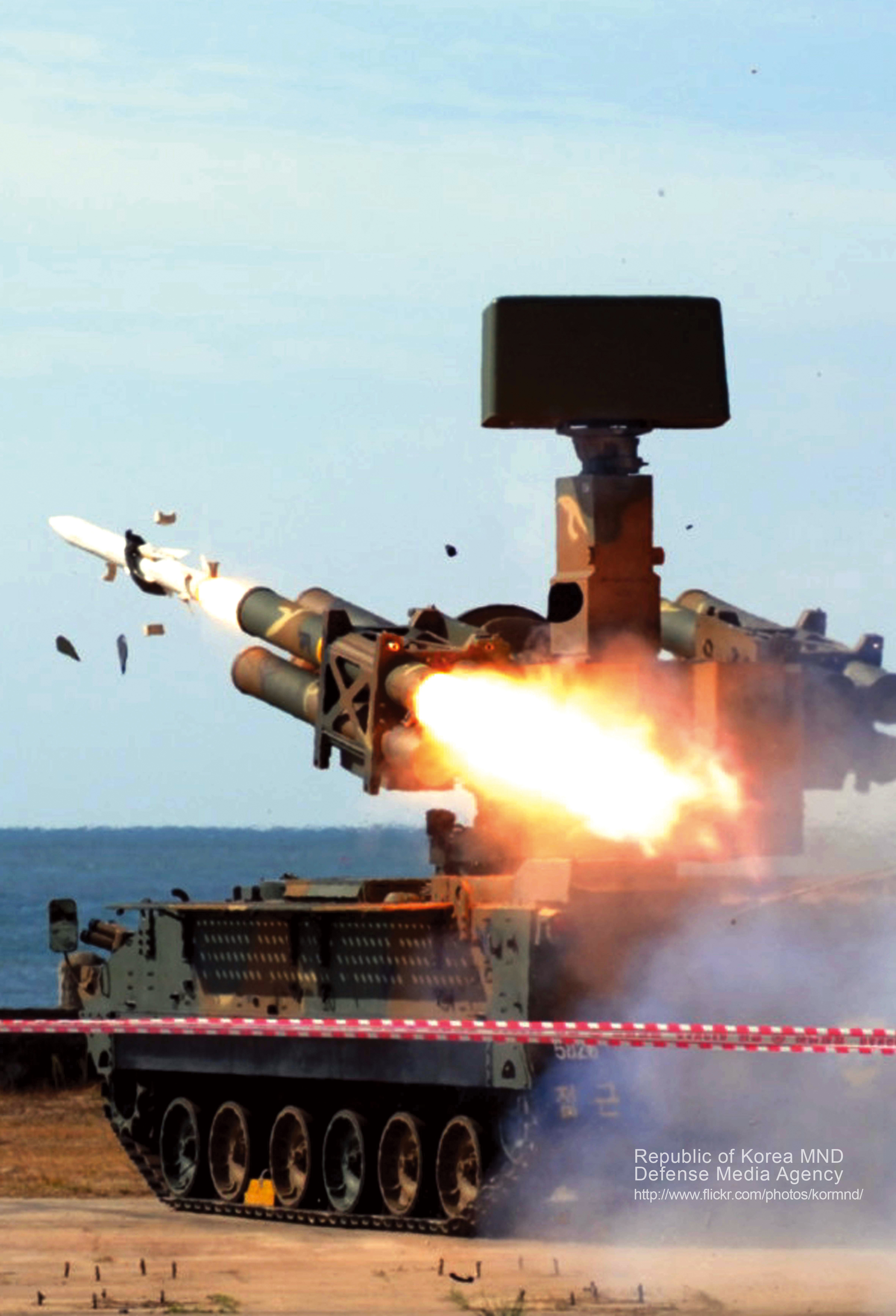 2008 국방화보 Rep. of Korea, Defense Photo Magazine